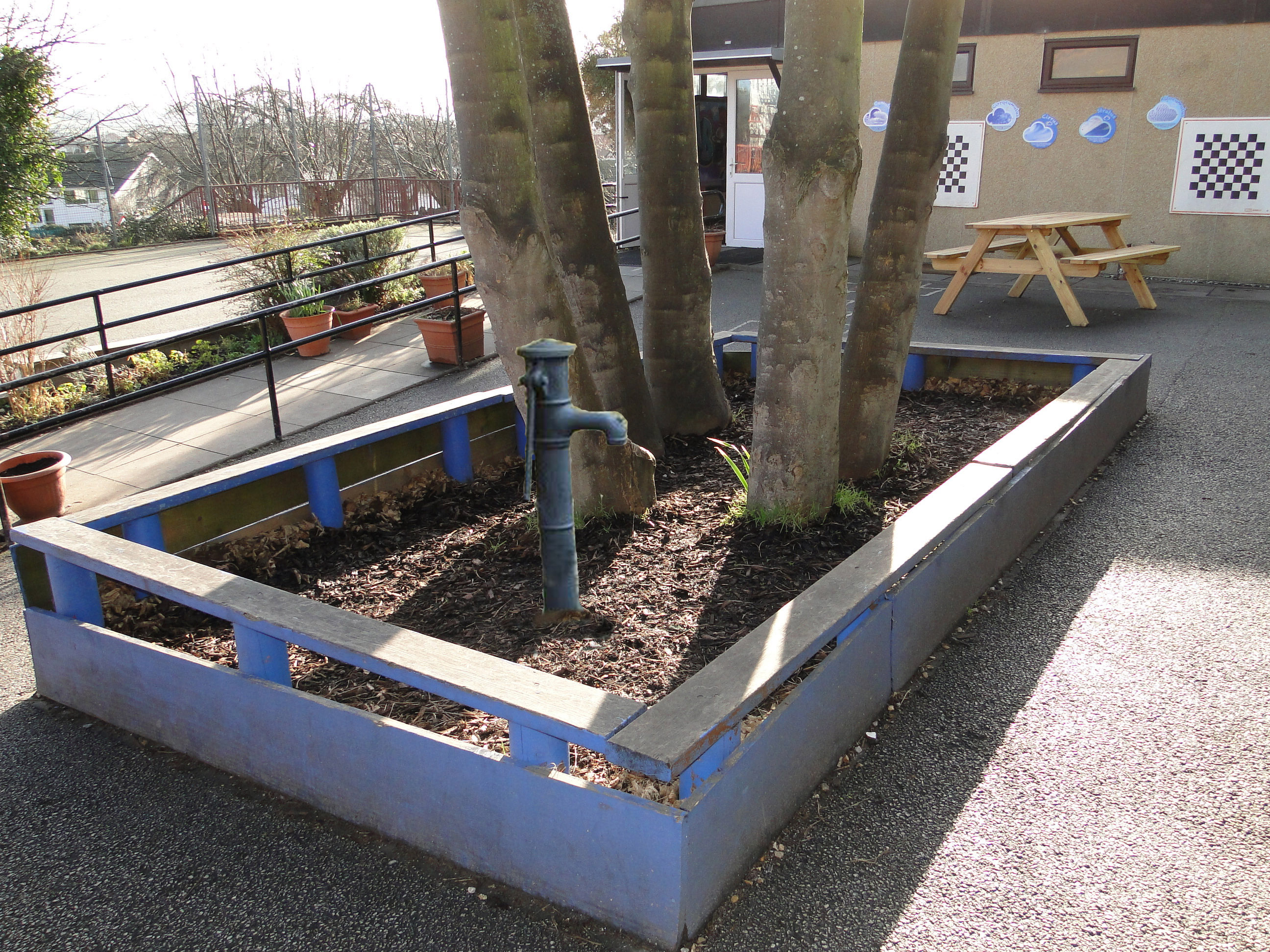 Ffynnon yr Odyn, one of the many renowned wells on Llandudno's Great Orme